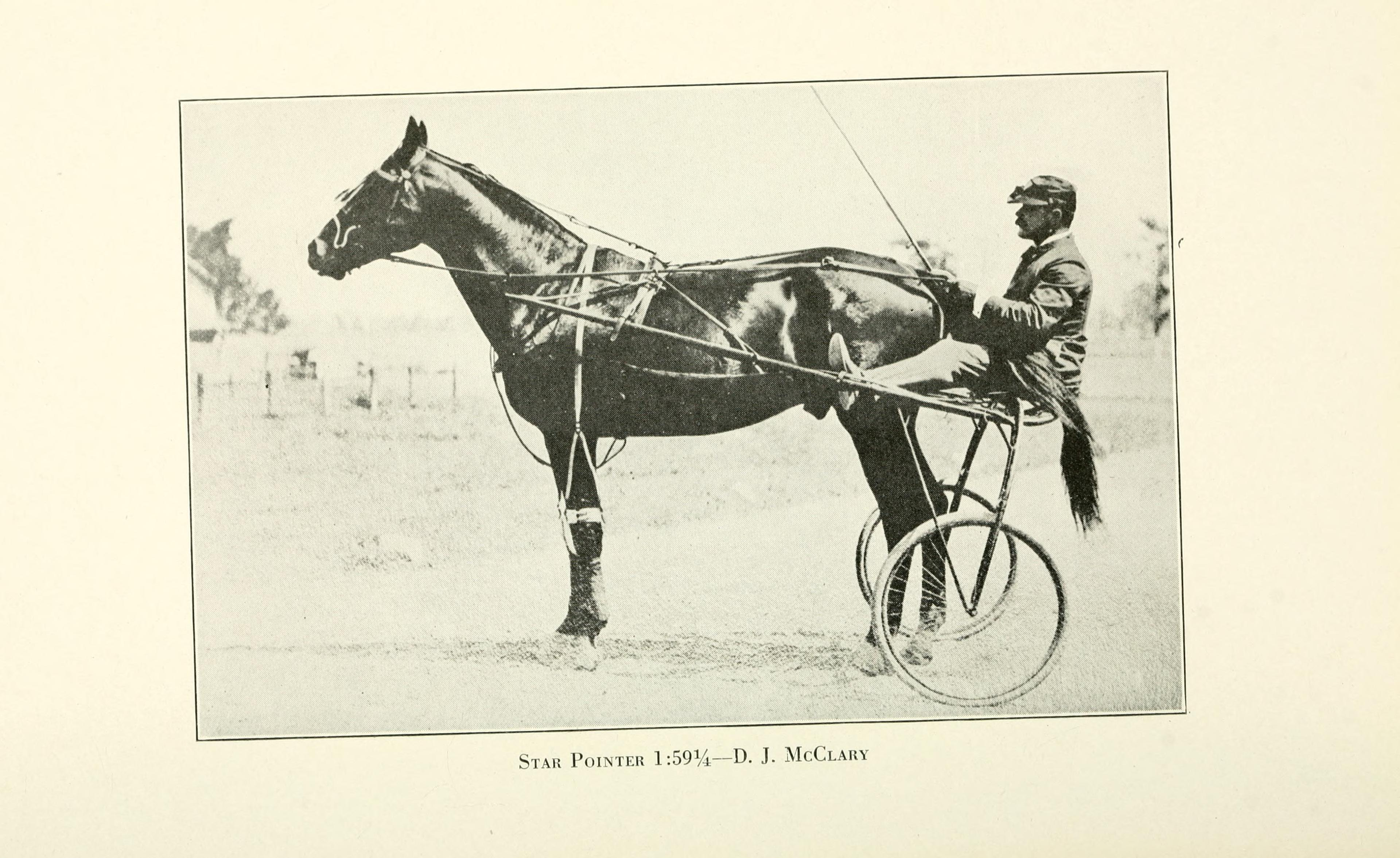 The two-minute horse : a history of the six two-minute trotters and the fourteen two-minute pacers to the close of the year 1921 / published by Millard Sanders.